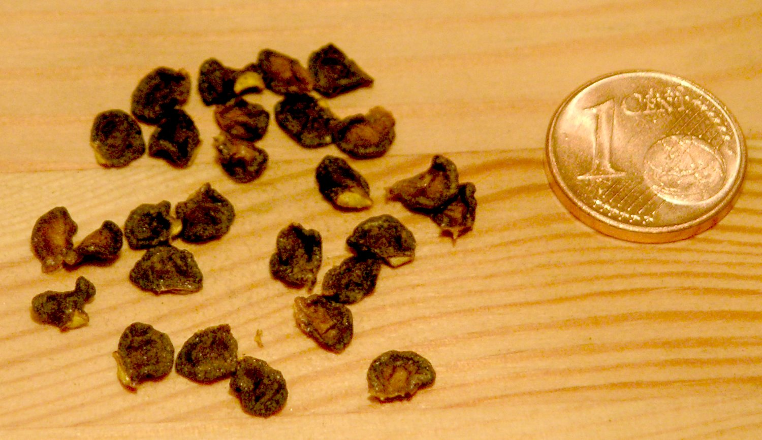 Seeds of Capsicum pubescens